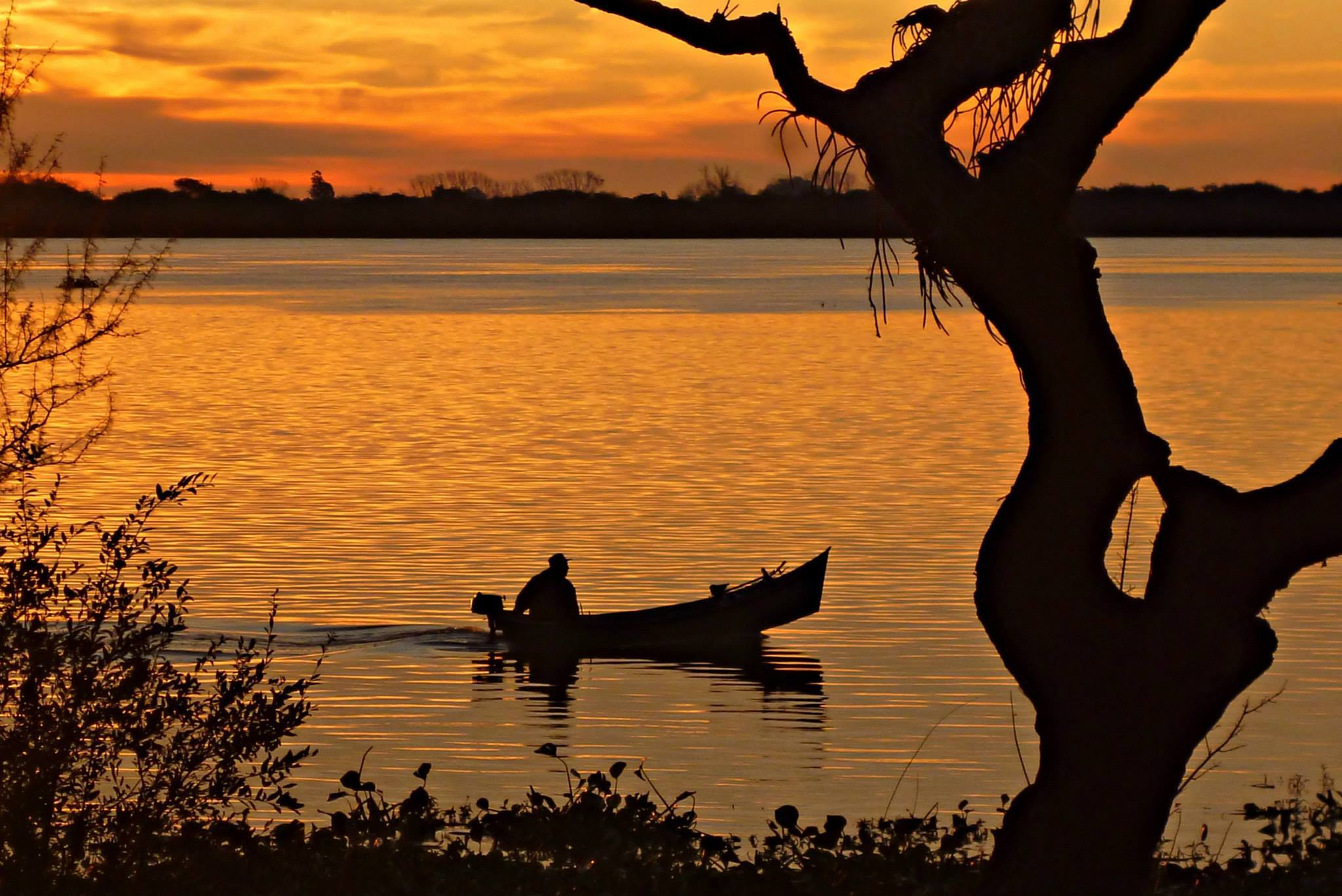 A fisherman comes back from the calm waters of the Uruguay River in Esteros de Farrapos, Uruguay.